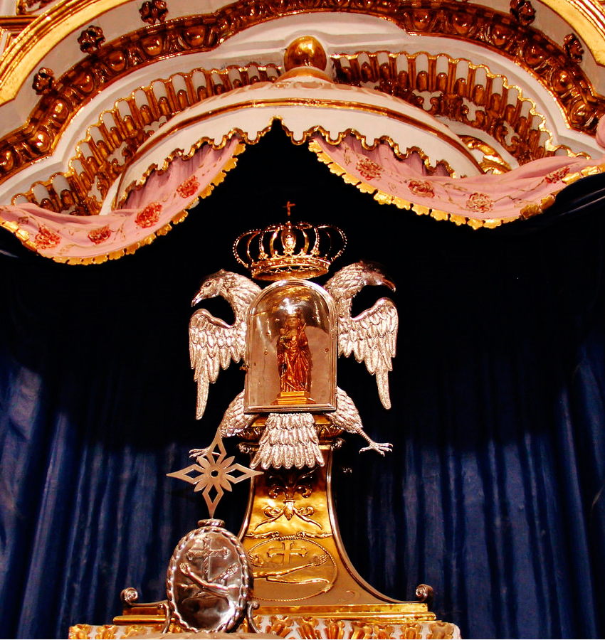 En 1582, el guardián del convento franciscano de la ciudad de Tlaxcala, fray Diego Rangel, testifico por medio de una Relación Jurídica que Cortés había concedido la sagrada imagen a la ciudad de Tlaxcala por haber sido la primera parte de la Nueva España donde se predicó el Santo Evangelio. Puebla, Mexico.